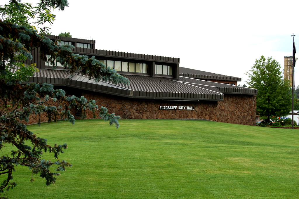 The city hall building of Flagstaff, Arizona, located on U.S. Route 66. Photo by Derek Cashman.